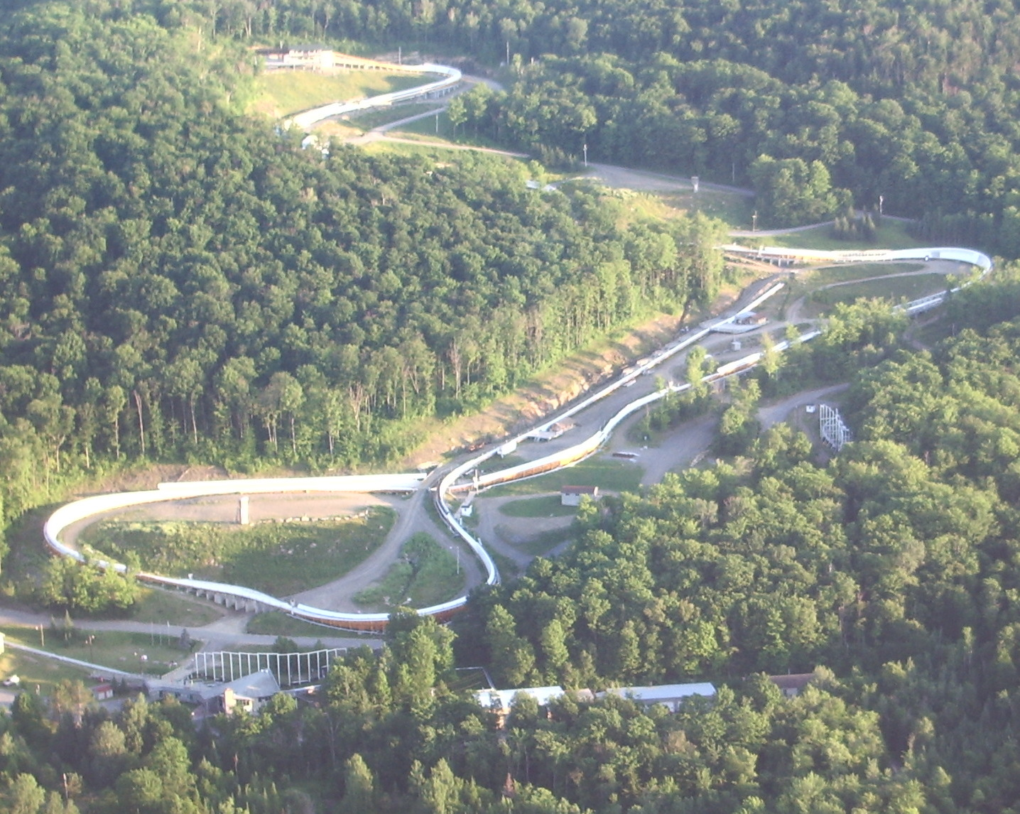 Mt. Van Hoevenberg Olympic Bobsled Run in Lake Placid, New York.